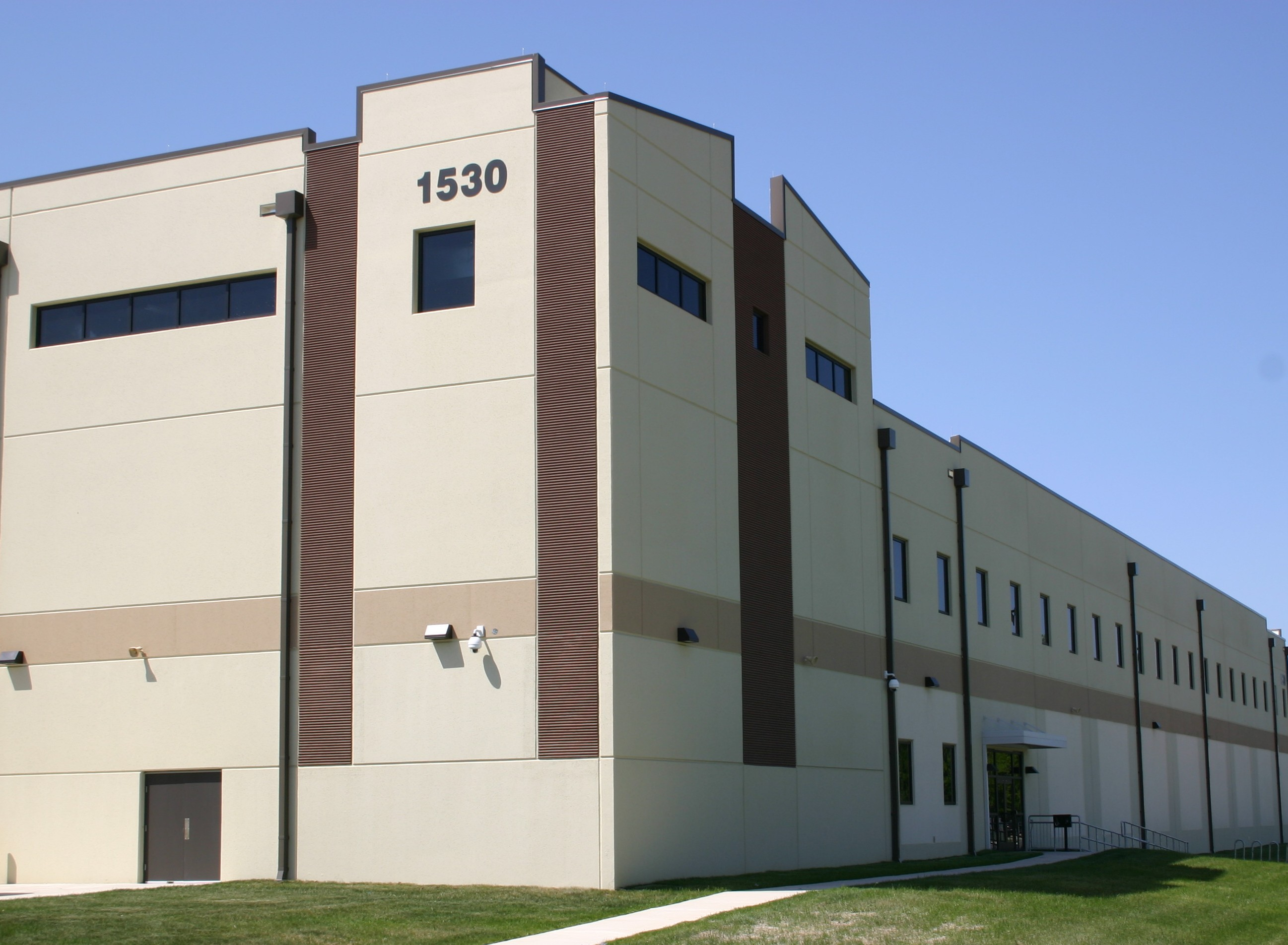 DAHLGREN, VA. (May 11, 2010) c The facility will support the Joint Tactical Information Distribution System and the Integrated Combat Systems Test Facility in operating, maintaining, and testing combat systems for aircraft carriers and large-deck amphibious assault ships to certify their performance for deployment. There will be a ribbon-cutting ceremony May 17, 2010. (U.S. Navy photo/Released)